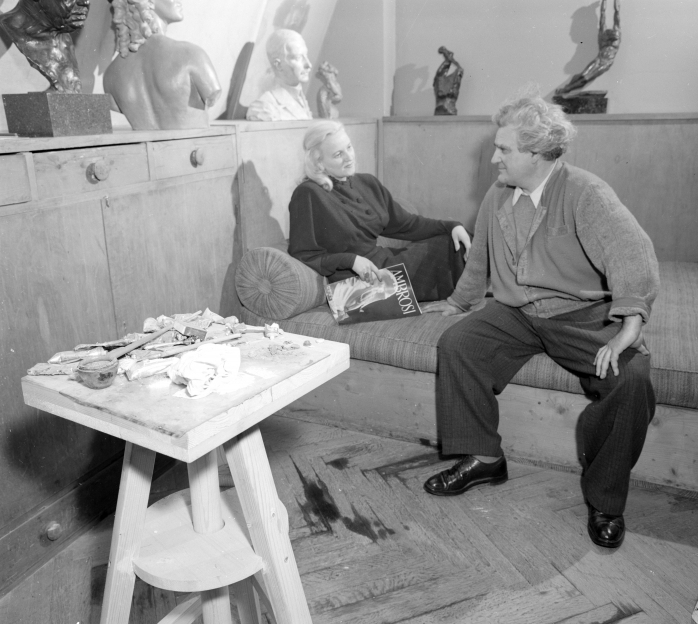 Gustinus Ambrosi (1893–1975), Austrian sculptor, in his studio. Probably with his wife Berta.